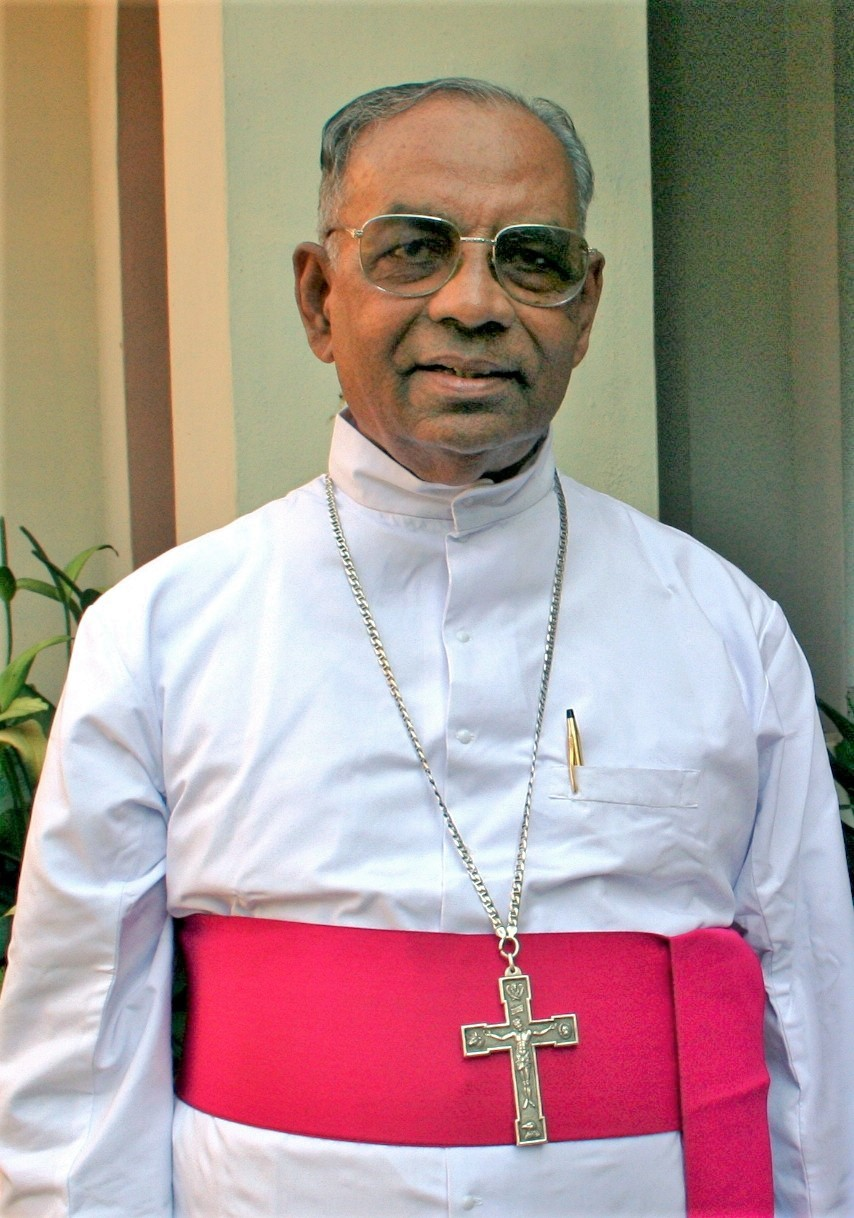 Kuriakose Kunnahcerry, the former Archbishop of Kottayam, Kerala, India.